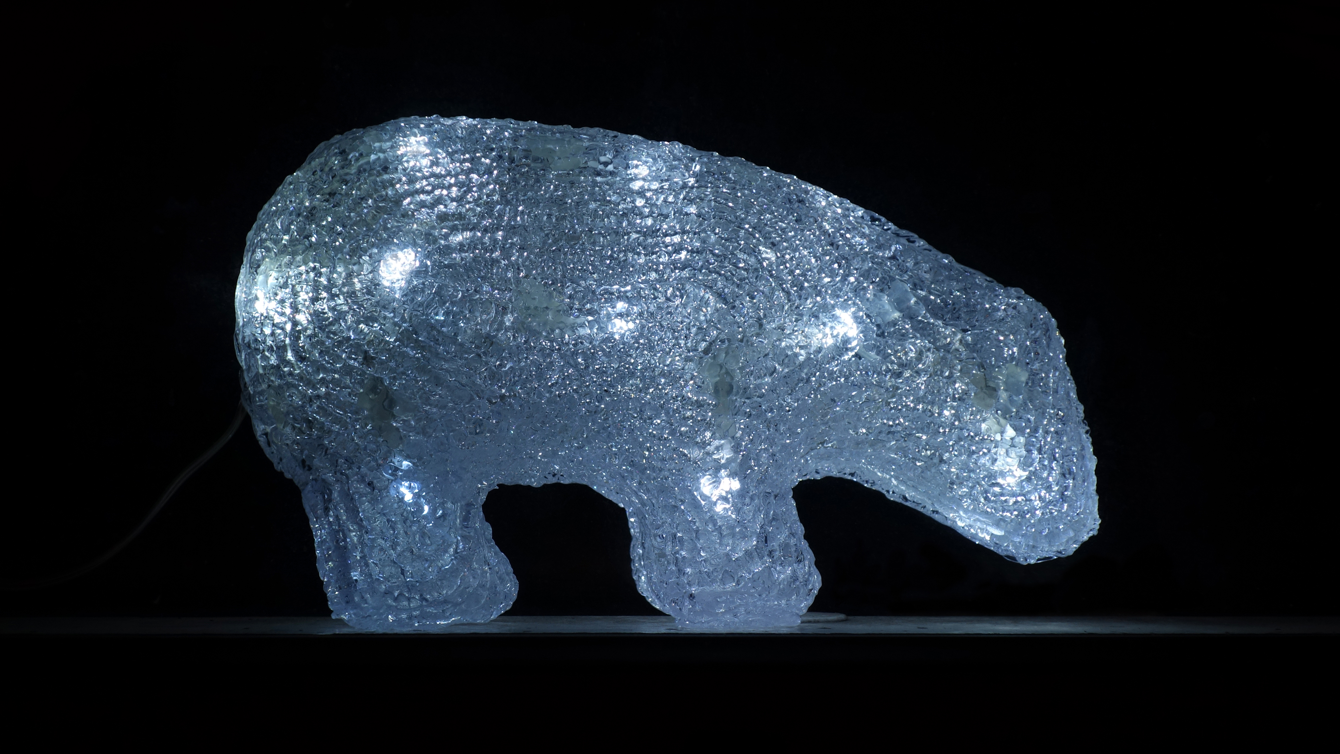 Clear plastic polar bear illuminated by LED lights inside it. The bear is aproximately 20 cm (7.9 in) long and its electric cord can be seen on the left side. Photo is taken outdoors through a window and assembled by stacking three pictures for focus and exposure.